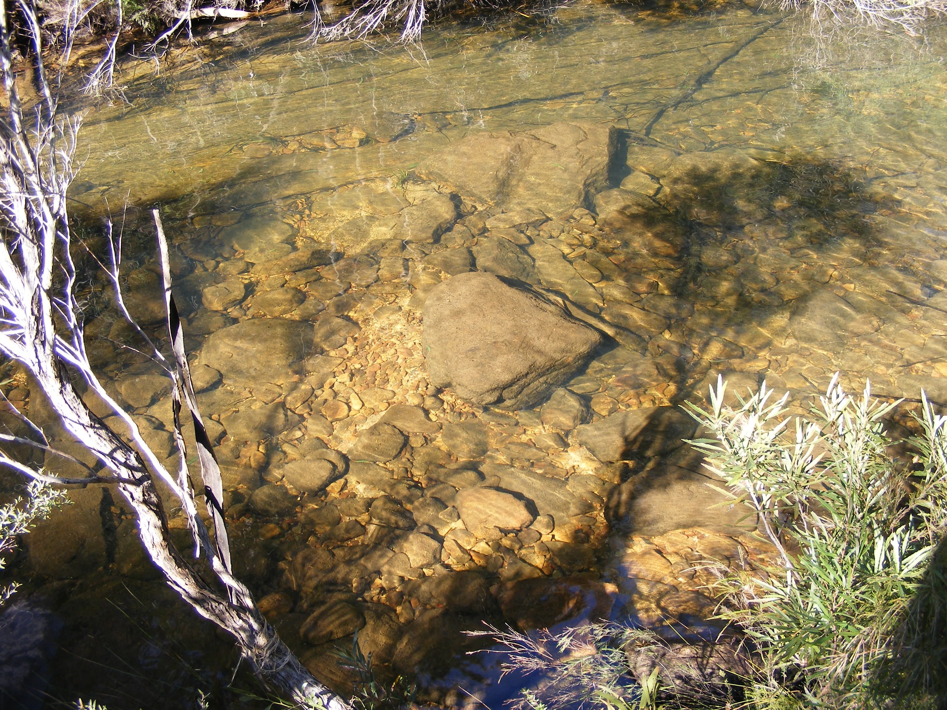 Heathcote National Park, Sydney Australia.